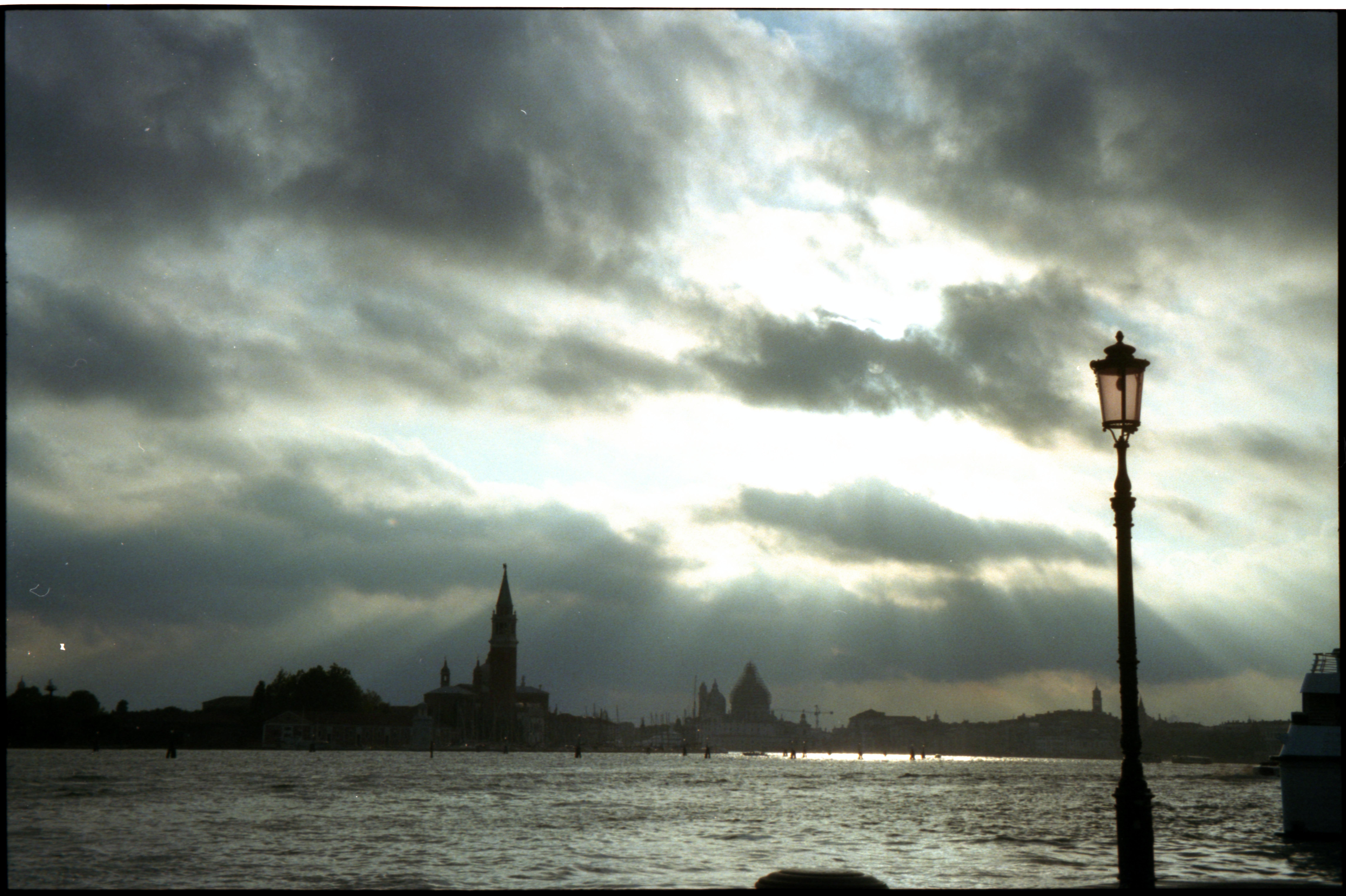 Photography of Venice at dusk